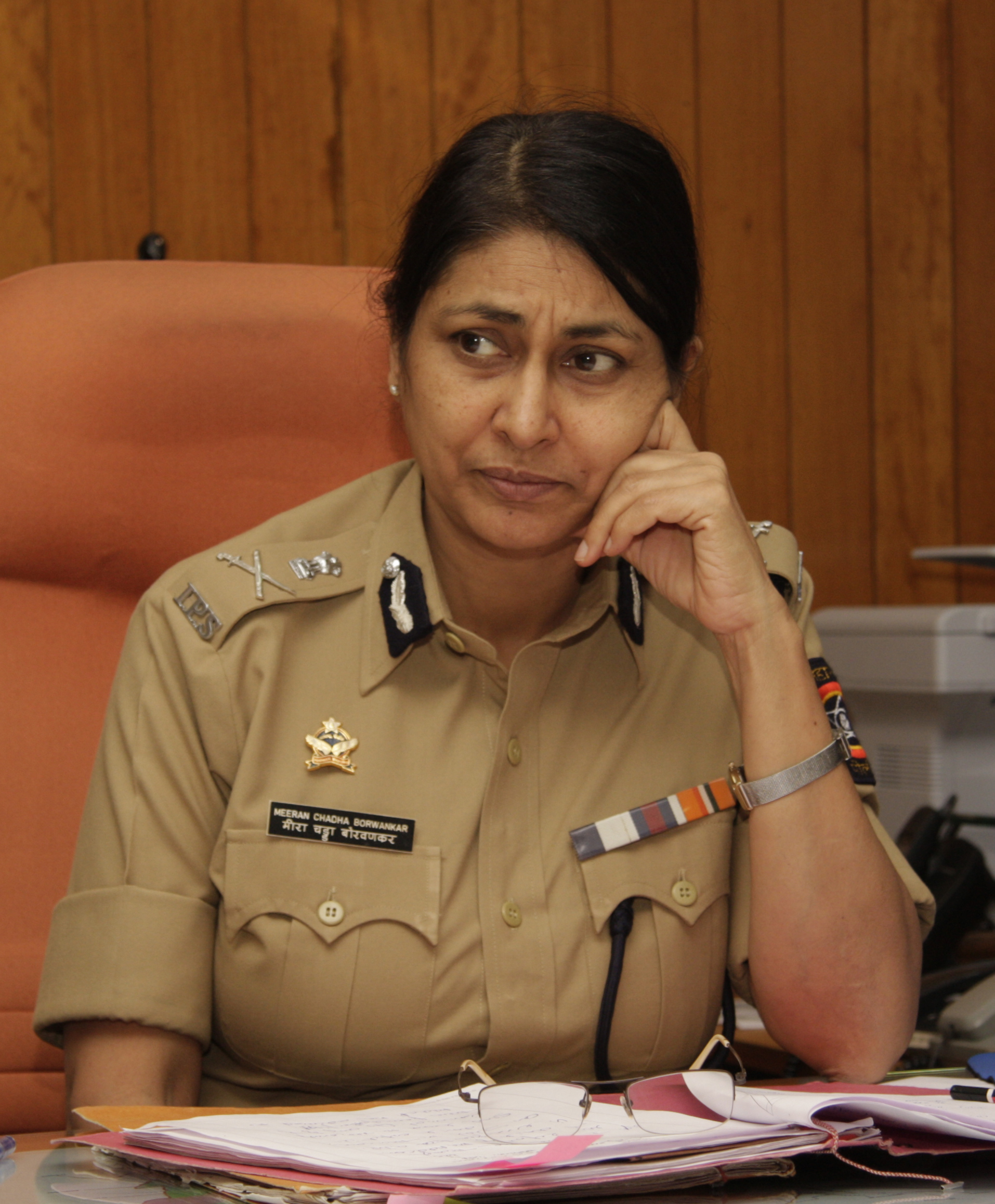 Commissioner of Police of Pune (India), Meeran Borwankar